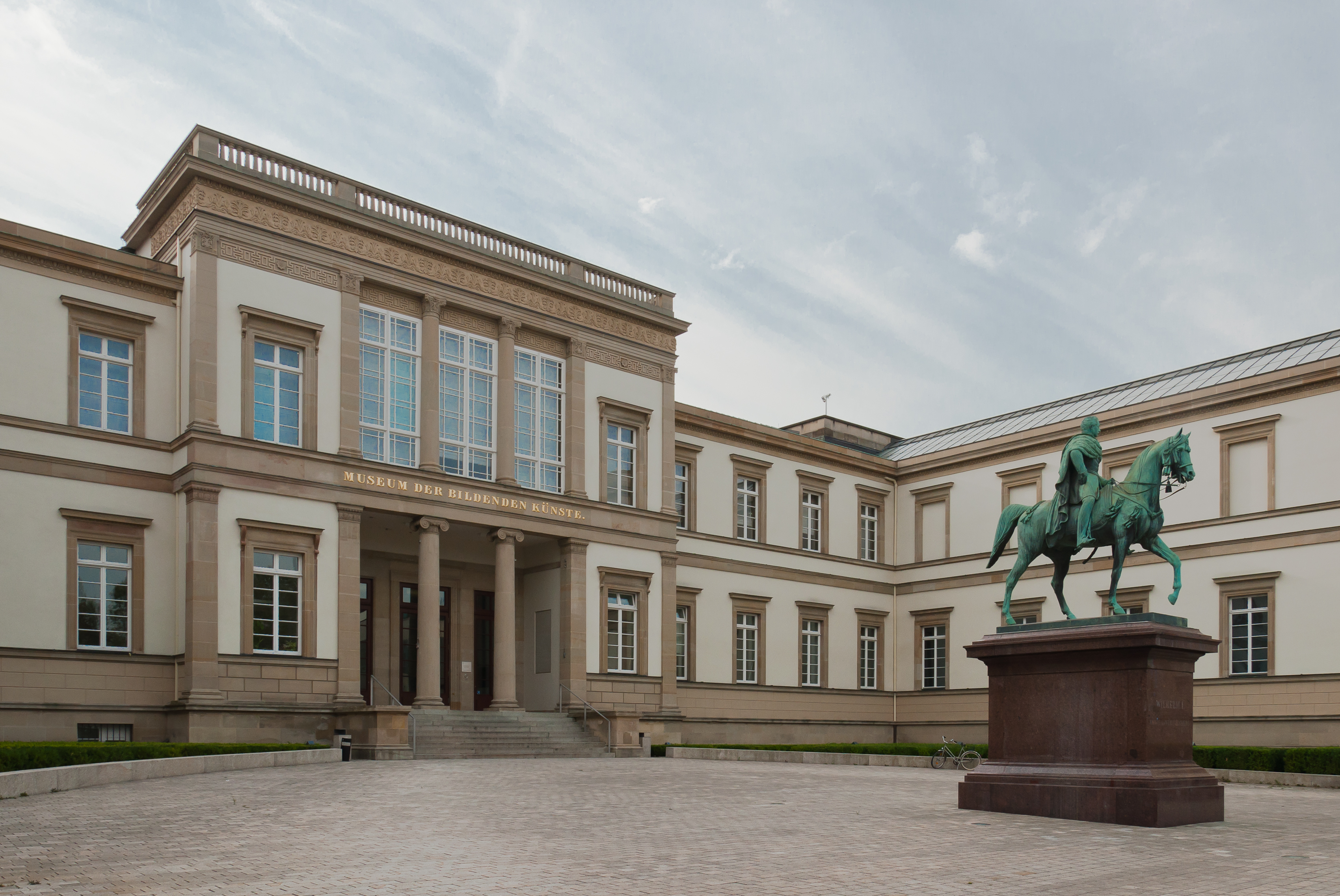 Old building of the Staatsgalerie in Stuttgart, Germany.